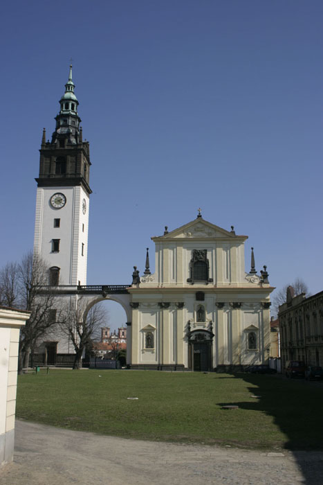 St Stephen cathedral with belfry in Litoměřice, Czech Republic.